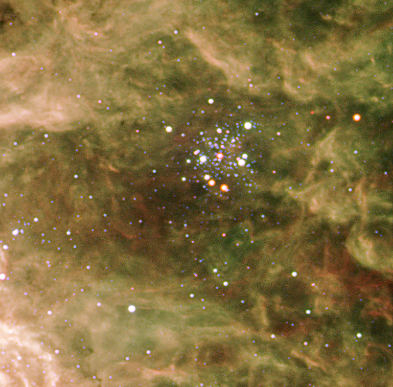 Above and to the right of the central cluster in the Tarantula Nebula, another cluster of bright, massive stars is seen. Known to astronomers as Hodge 301, it is about 20 million years old, or about 10 times older than R136. The more massive stars of Hodge 301 have therefore already exploded as supernovae, blasting material away at tremendous speed and creating a web of entangled filaments. More explosions will come soon - in astronomical terms - as three red supergiants are indeed present in Hodge 301 that will end their life in the gigantic firework of a supernova within the next million years.